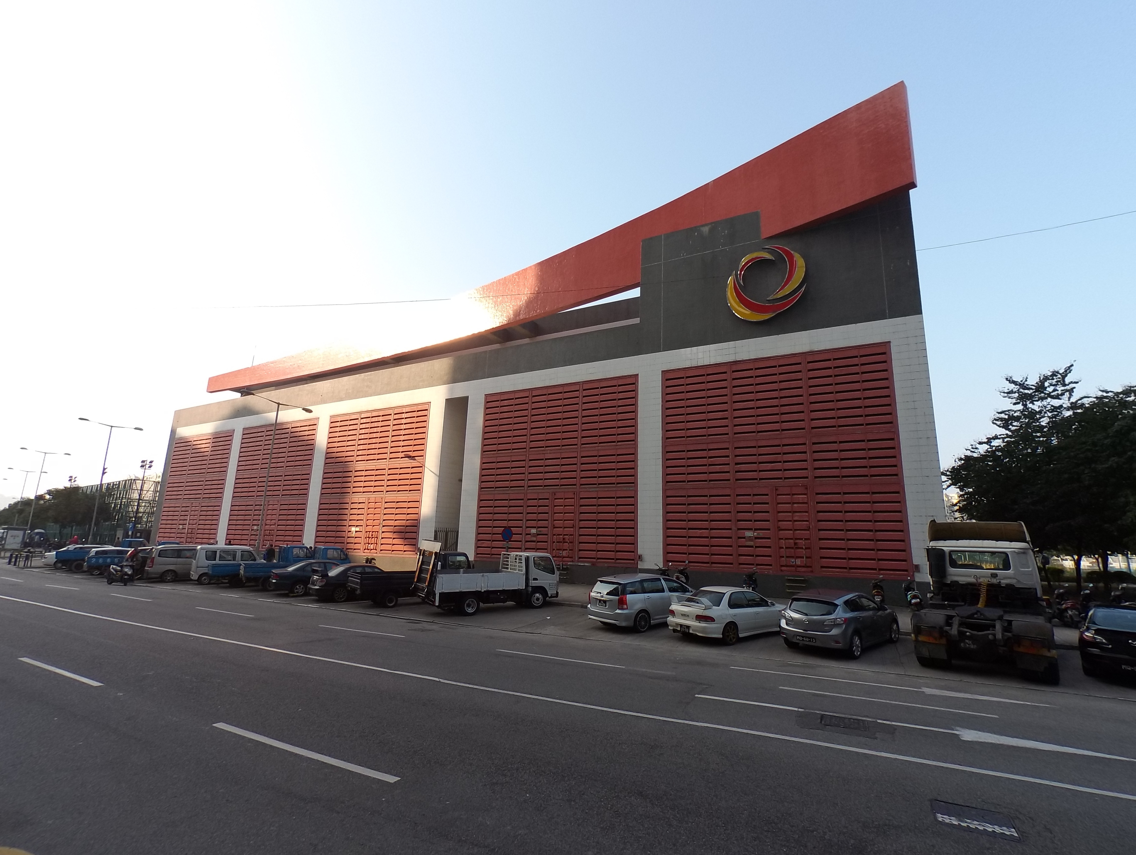 CEM Canal do Patos Substation